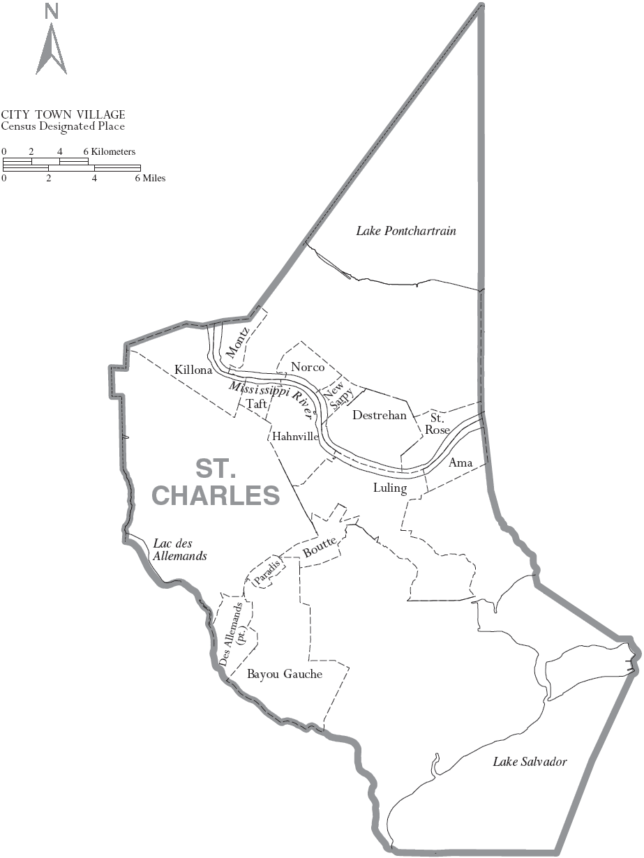 Map of St. Charles Parish, Louisiana, United States with municipal boundaries